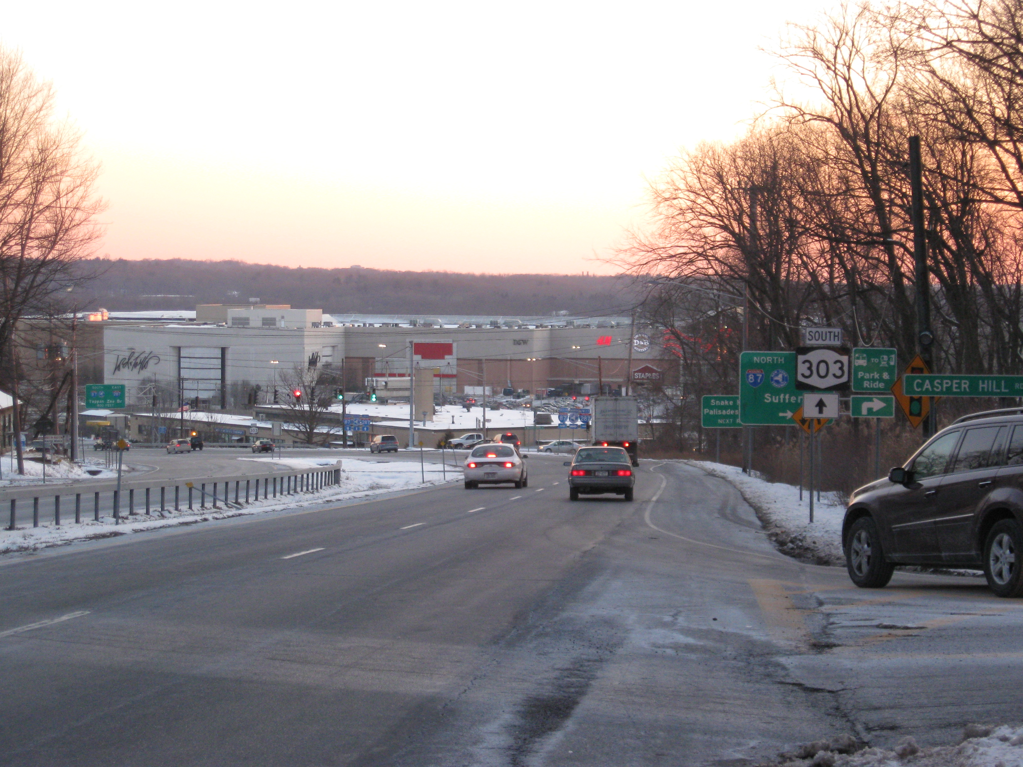 Southbound New York State Route 303 as it approaches the New York State Thruway and Palisades Mall in West Nyack, New York.